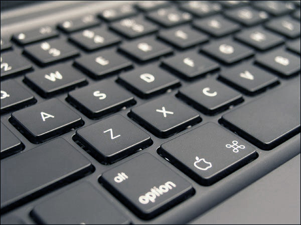 Picture of Black MacBook keyboard. (Colour balance, saturation and levels adjusted relative to original upload).